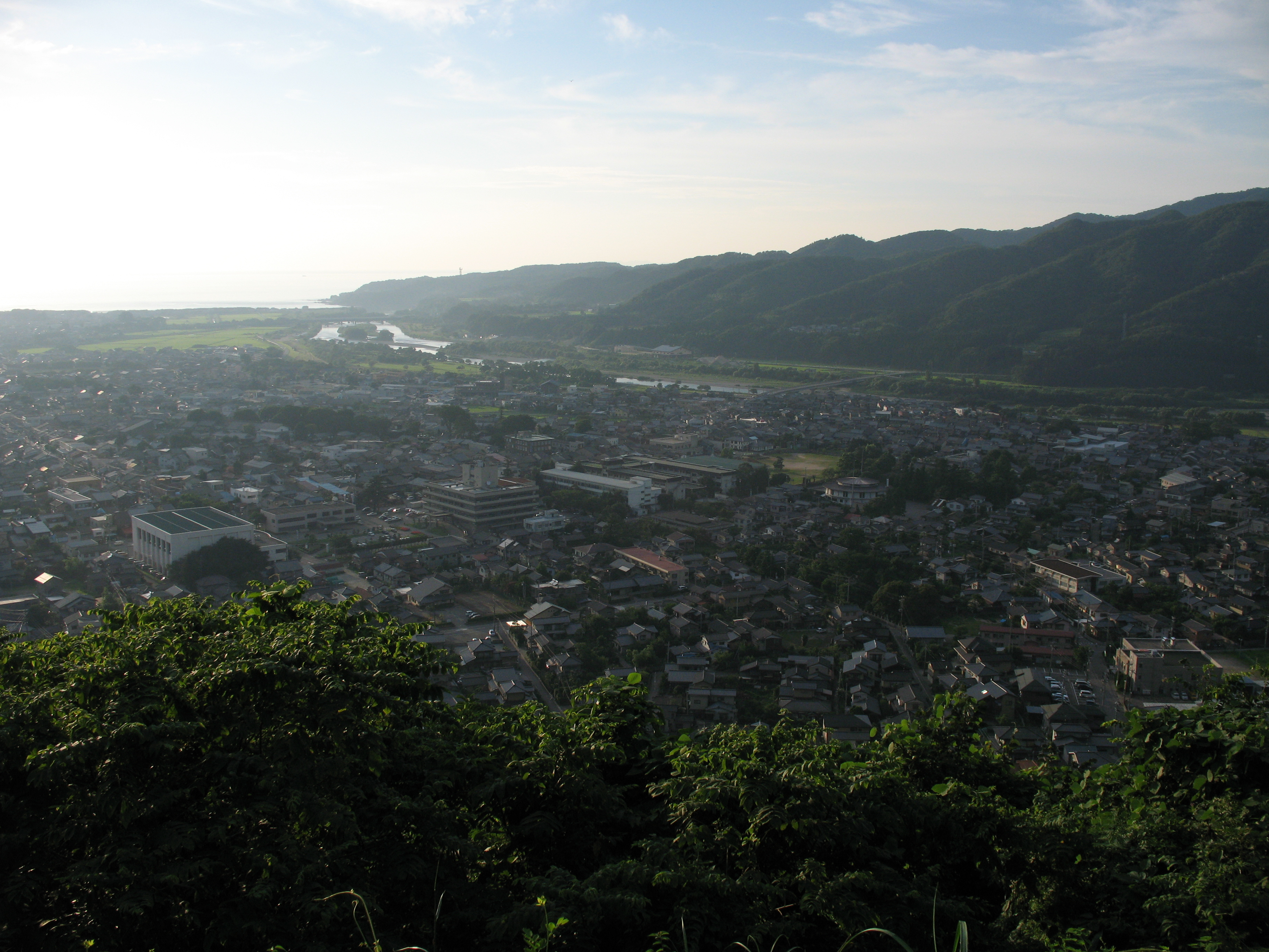 This is a view of Murakami from Oshiroyama (Castle Mountain) taken around 6 PM on August 9th, 2007. The city hall can be seen near the center of the photo, as well as the Miomote River and Japan Sea in the distance.